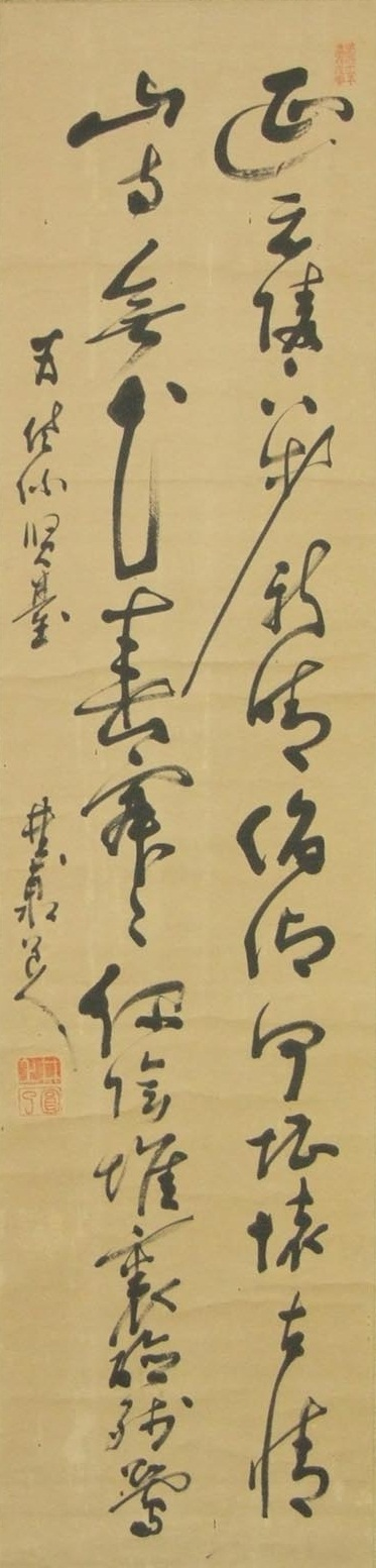 Enryo Inoue's hand-writing